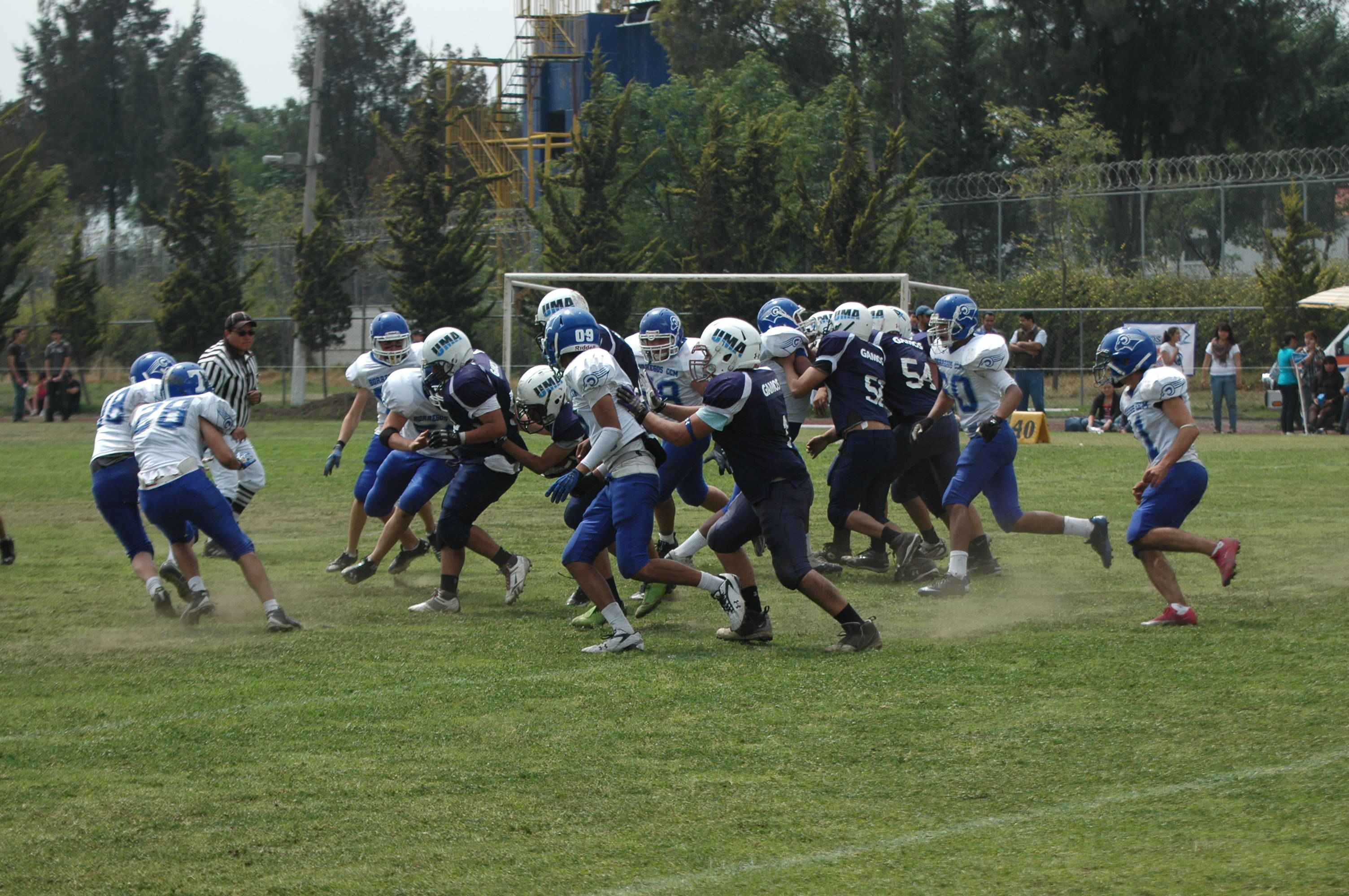 American football game between the ITESM-Campus Ciudad de Mexico youth team division A and that Gamos UMA